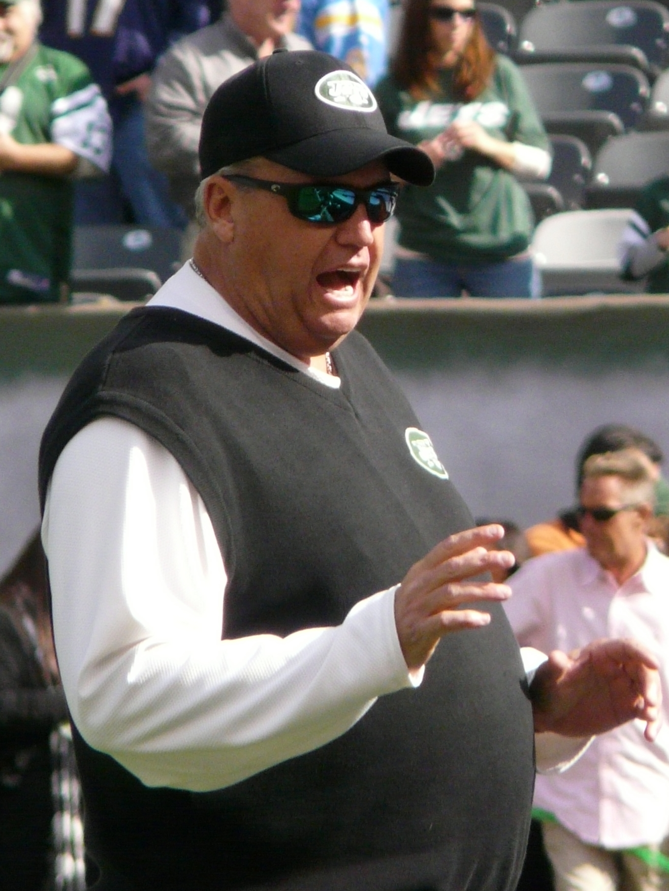 Head Coach Rex Ryan of the New York Jets of the National Football League